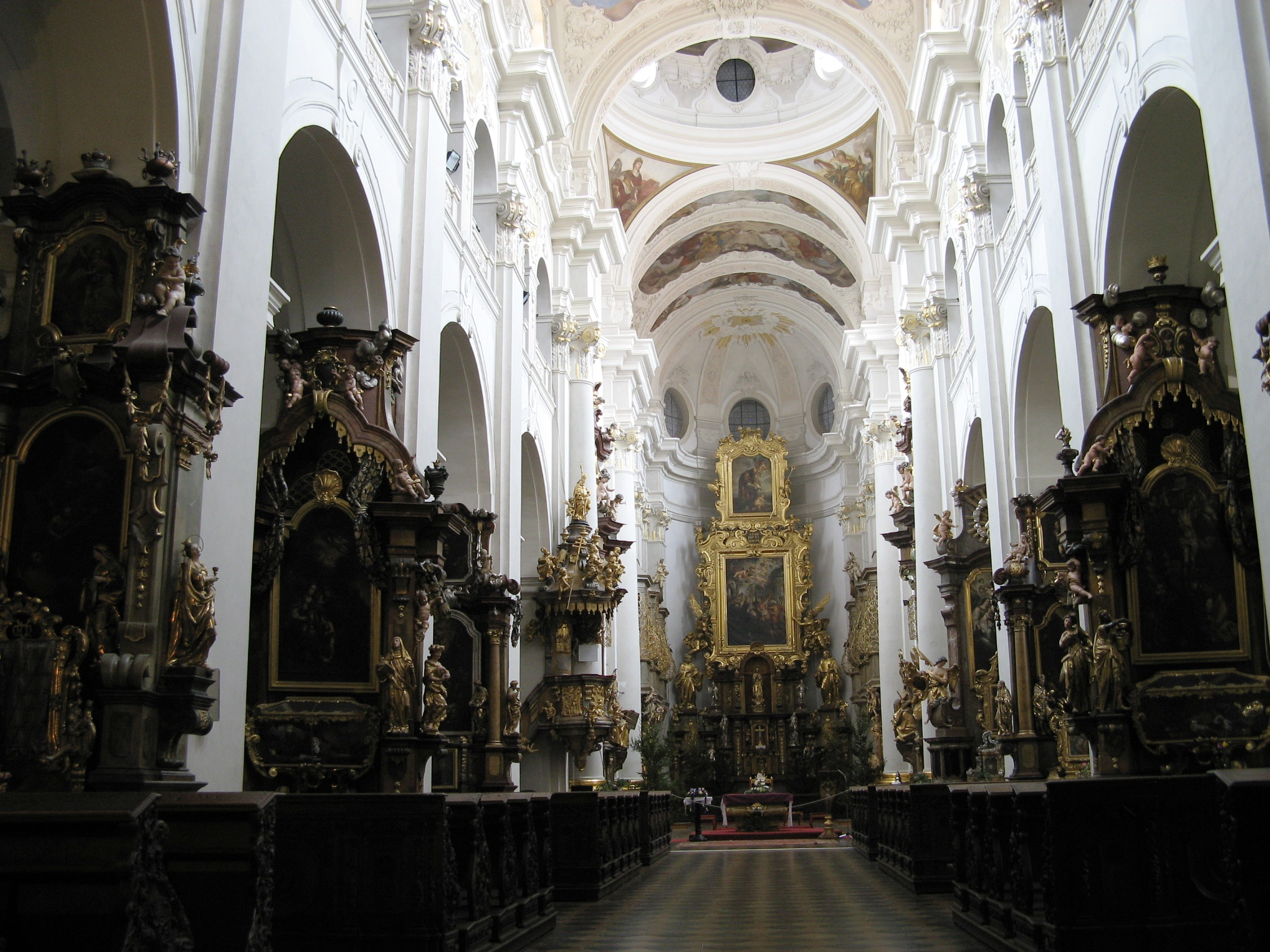 Church of St. Thomas in Lesser Town, Prague. Altar.